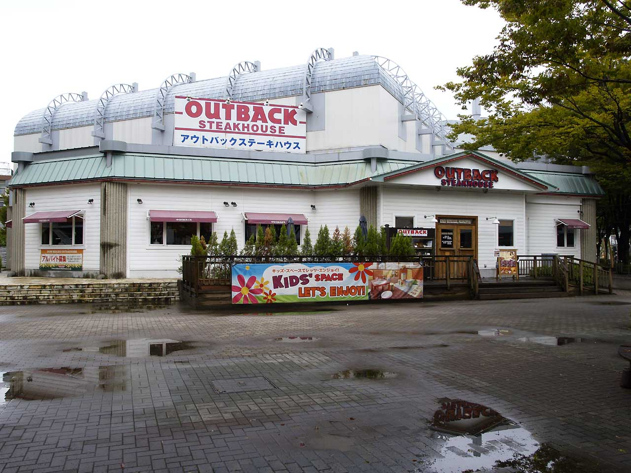 Outback Steakhouse Ichikawa store, located in Nikke Colton Plaza. Ichikawa city, Chiba Japan.